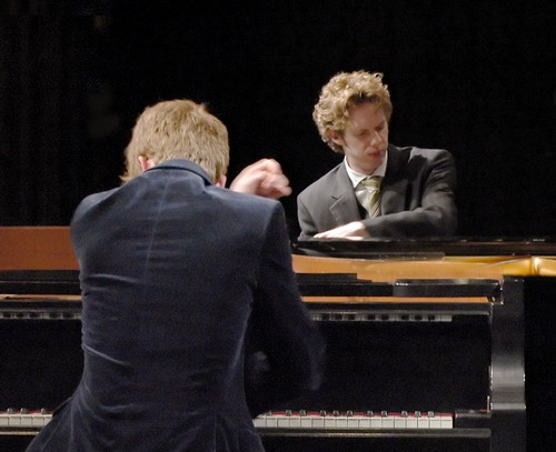 The Five Browns Brothers performing on Steinway grand pianos at the Ottawa Chamber Music Festival Piano Gala. Photo by Mike (Binary Rhyme) Heffernan, a member of the RA Photo Club. Copyright 2006 by Mike Heffernan. Used with permission by